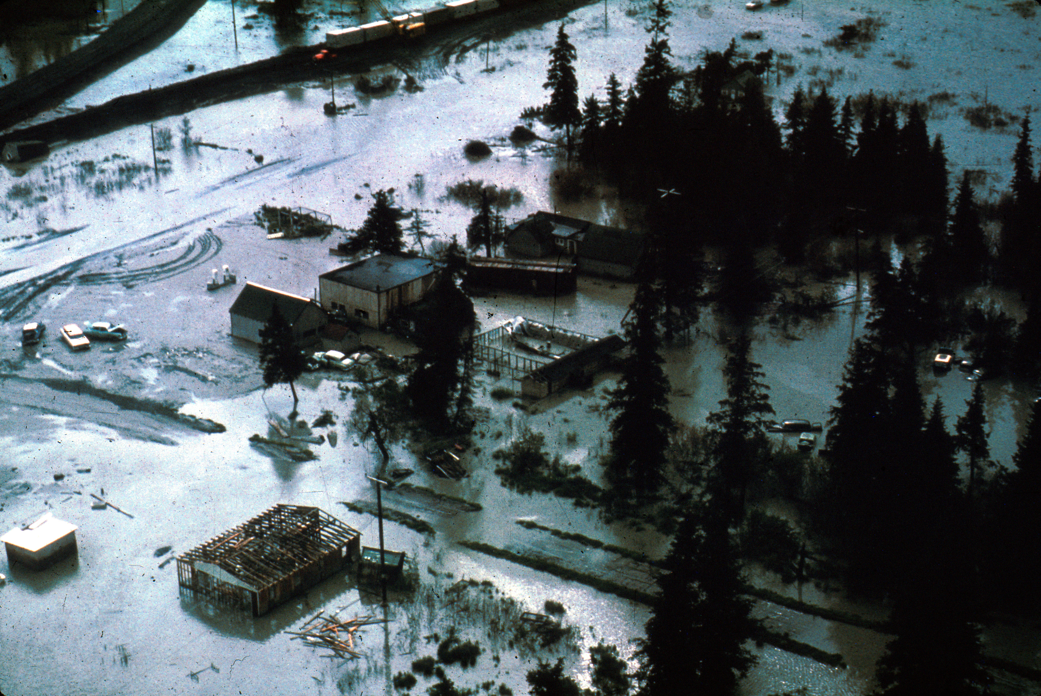 Aerial photo of Portage, Alaska townsite after the 1964 Alaska earthquake, taken near railroad siding. The townsite, and in general most land on the seaward side of the Seward Highway, was rendered unusable by 6 feet of subsidence and subsequent flooding at higher tides. Publishing information apart from the web page is unknown.